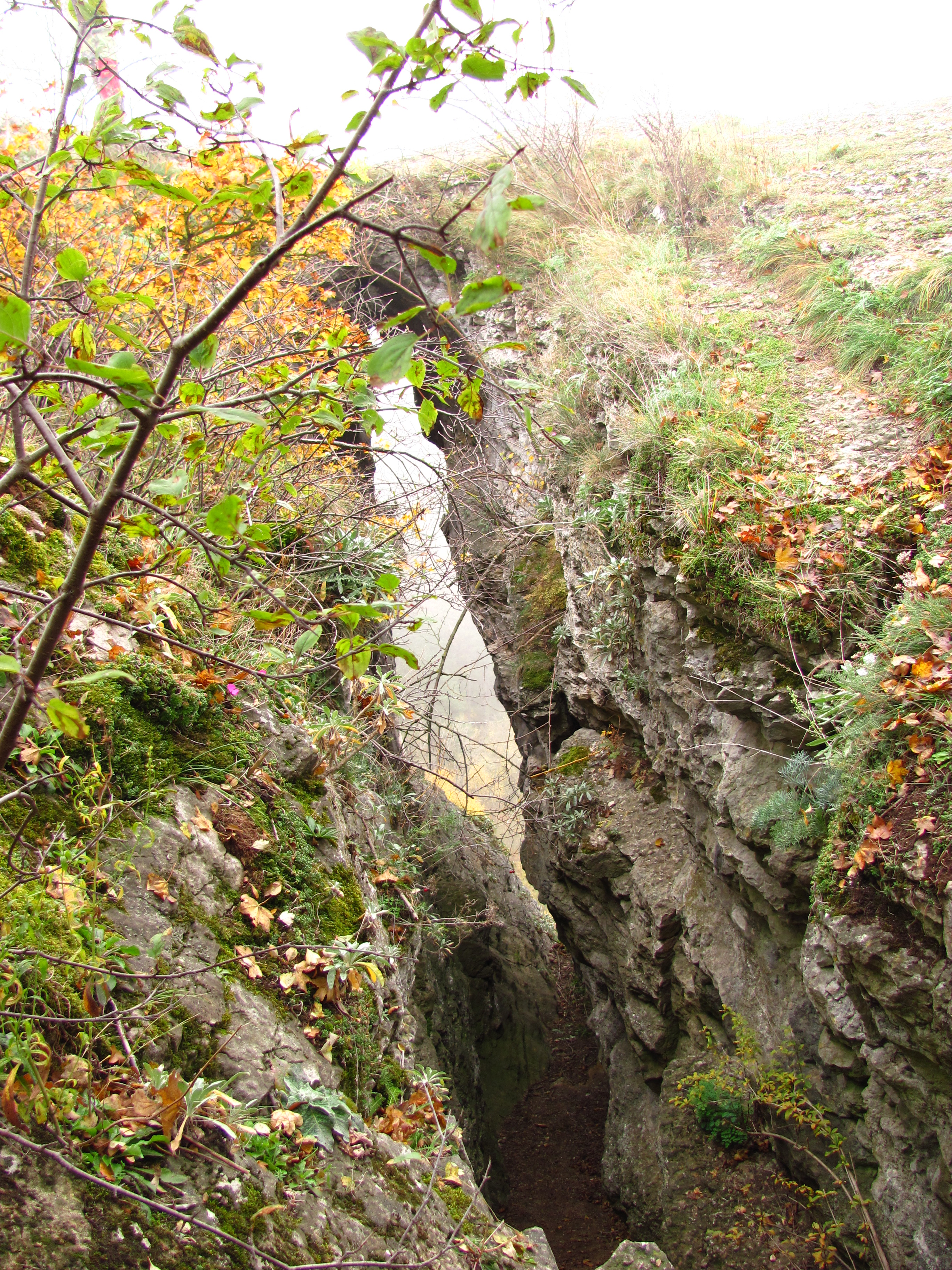 Kotyz_Jelinek`s Bridge, national natural monument Kotýz in Beround District, Czech Republic